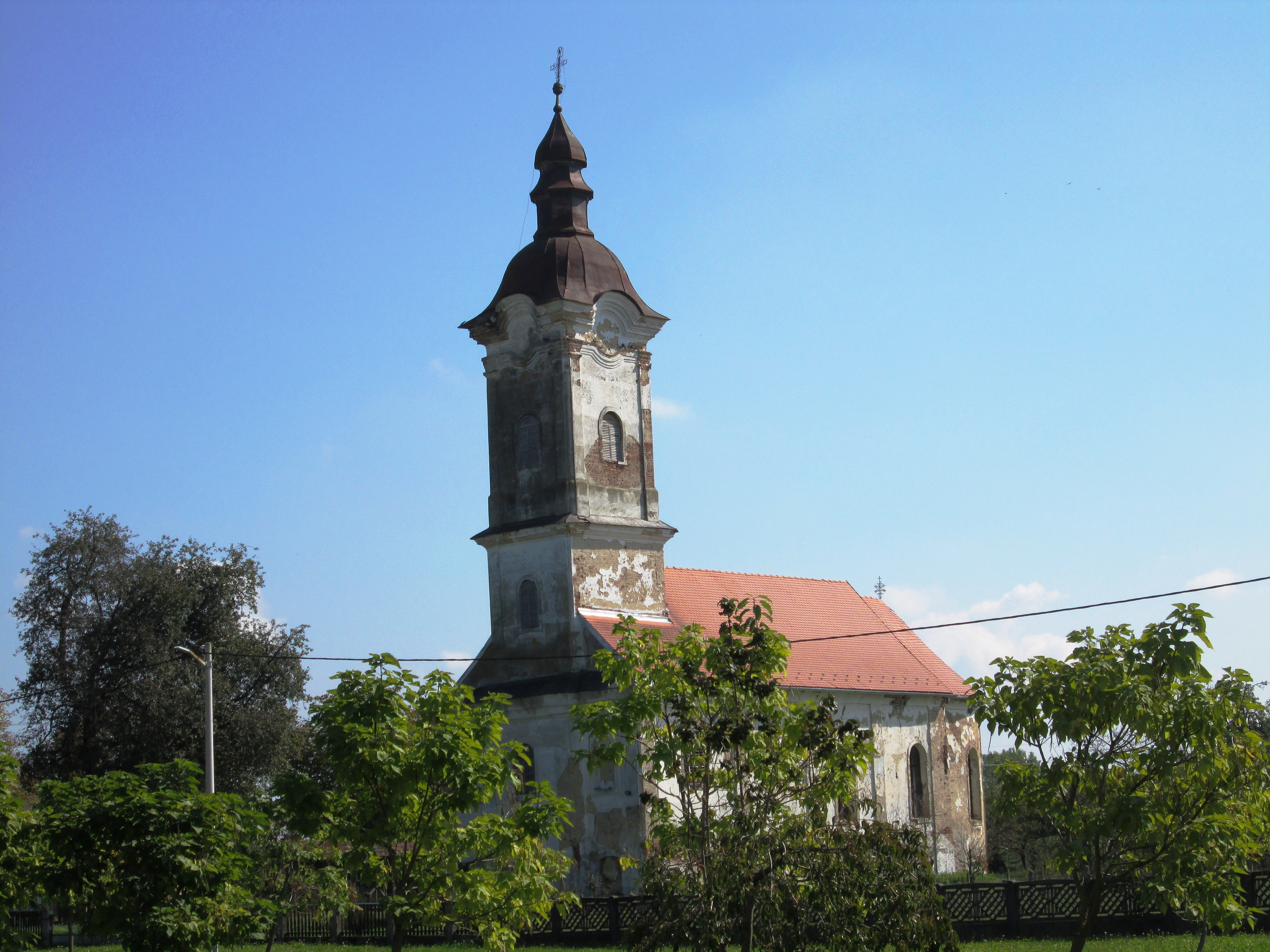 Ortodox churches in Severin, Croatia.